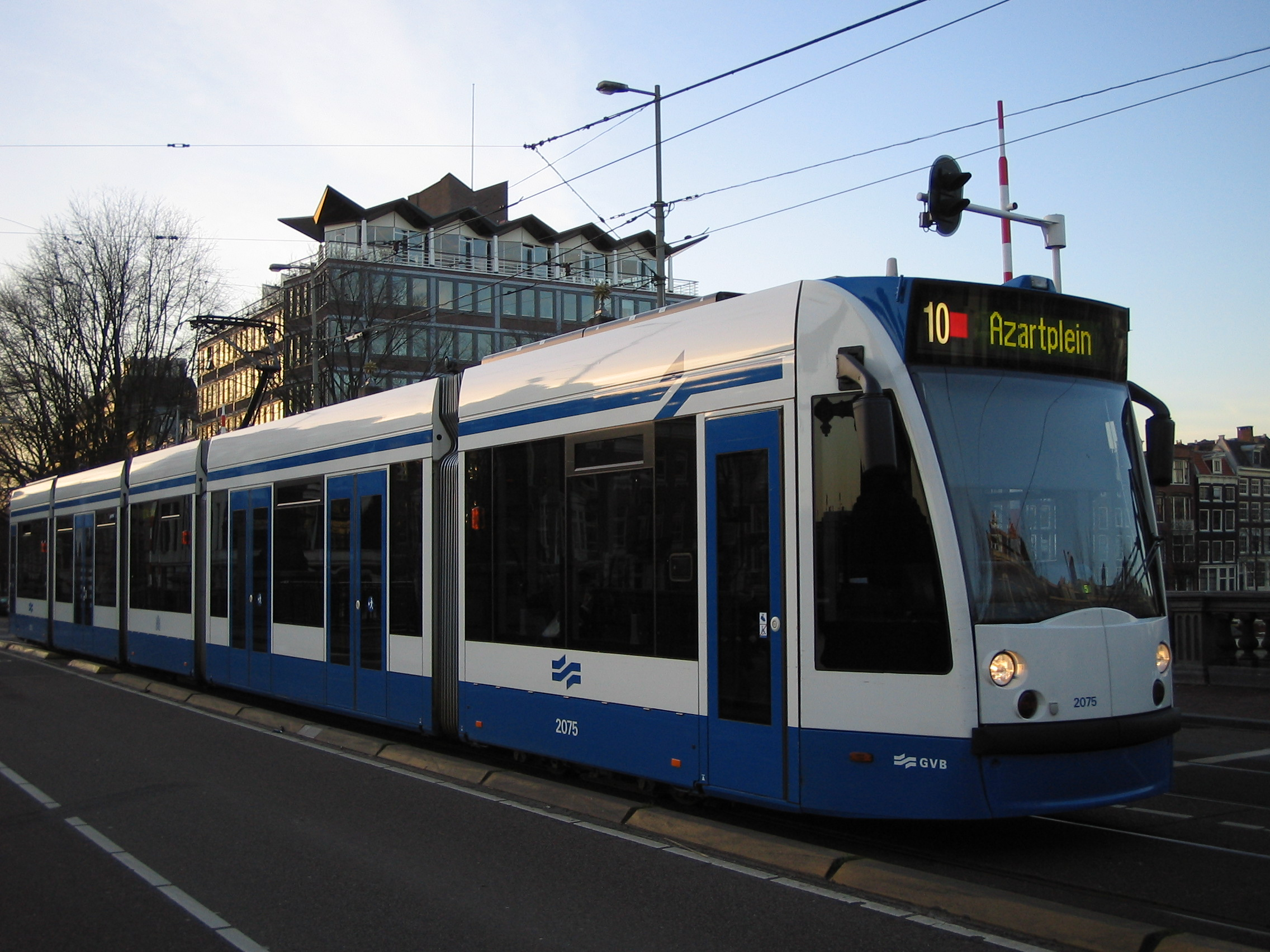 A photograph of a Tram crossing a bridge in Amsterdam.